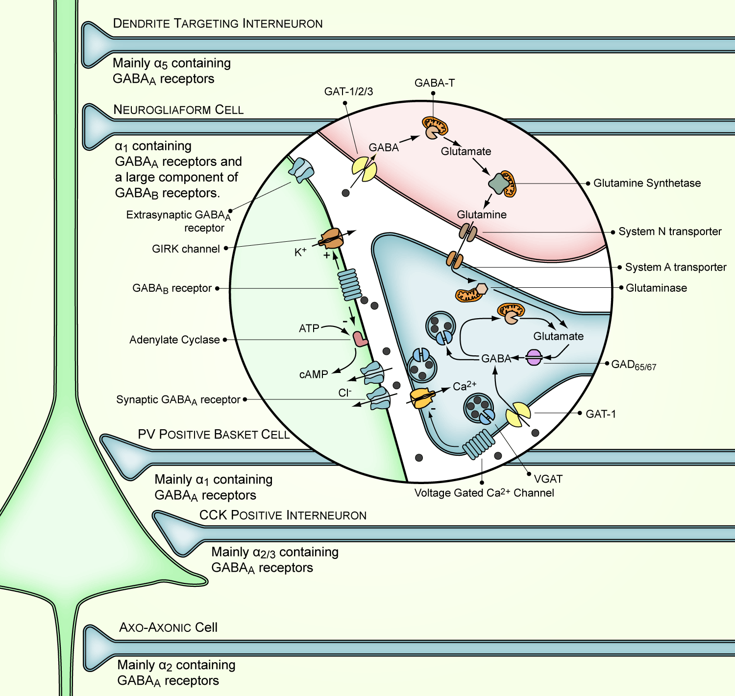 GABAergic synapse showing the production, release, action and degredation of GABA. Created for my PhD Thesis. SVG version can be found at GABAergic_synapse.svg, but I can't get the text right.